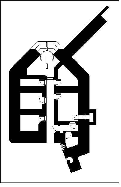 A plan of the 10.5 Coast Defence Gun Casemate at Fort Hommet, Guernsey